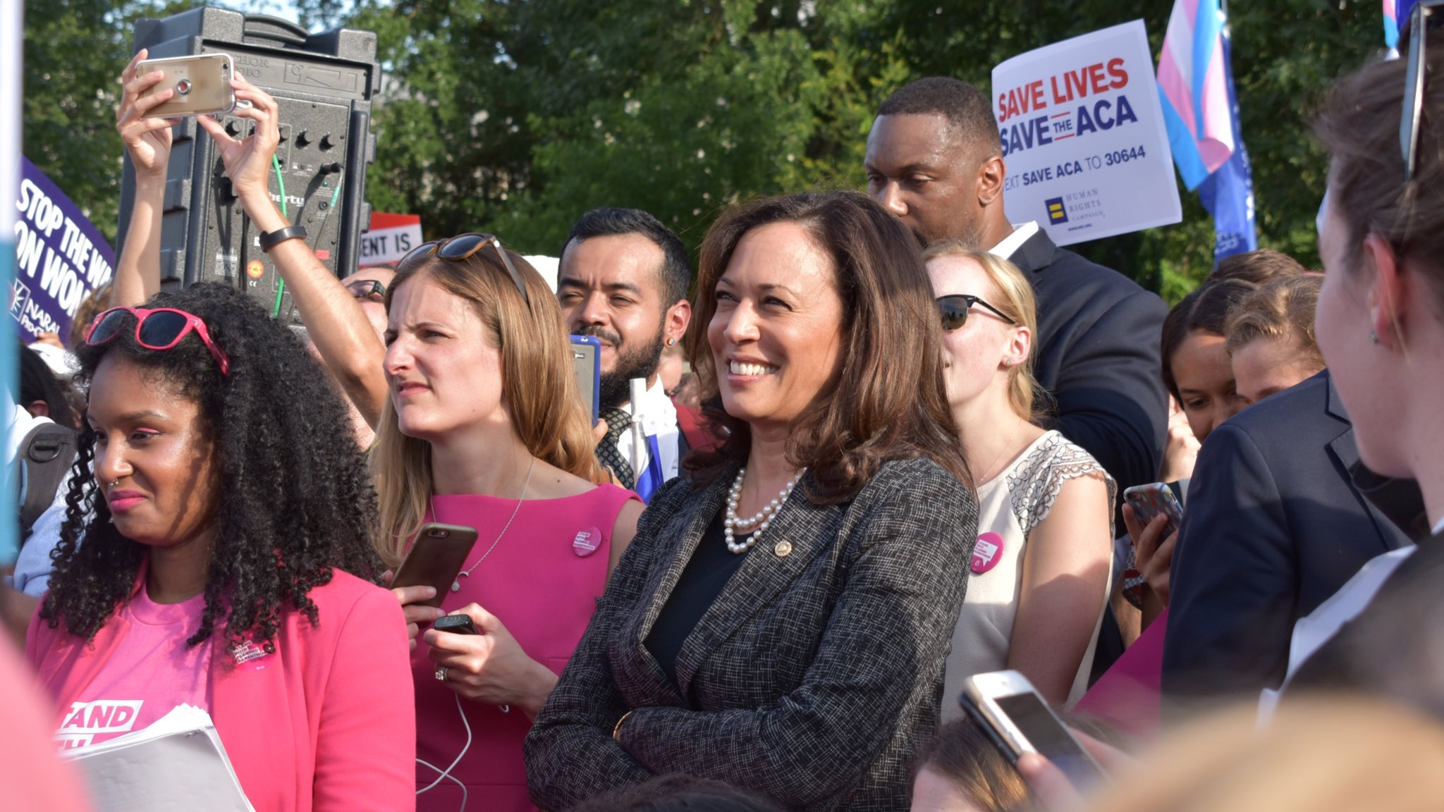 Joined the health care rally outside the Capitol tonight. This next week will help define who we are as a country. We must keep fighting.